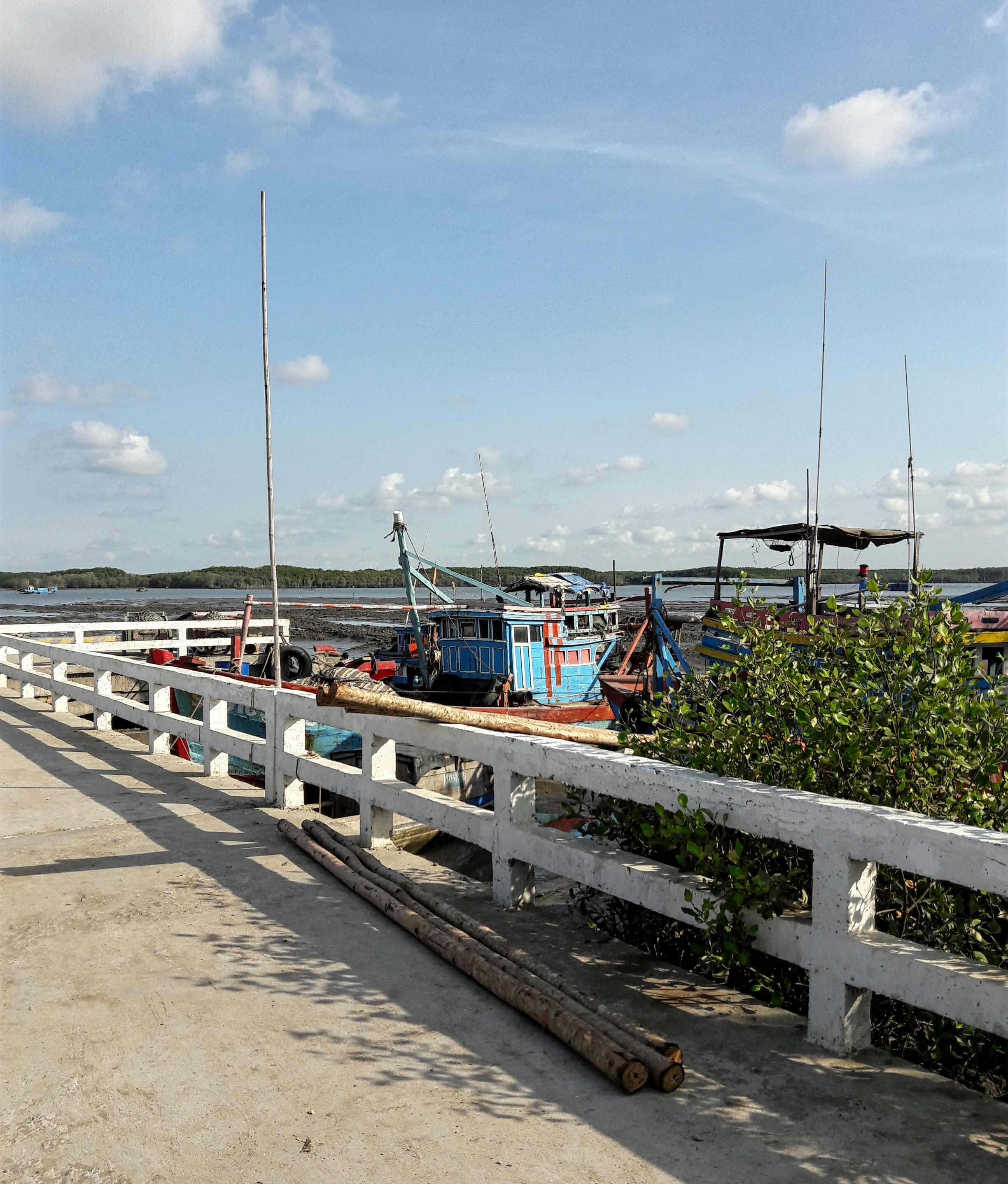 A wharf in Thanh An Ward, Can Gio District